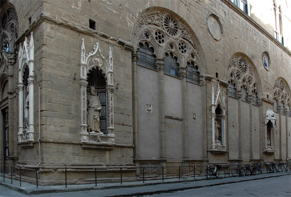 Orsanmichele, south facade, Florence (Via dei Lamberti).